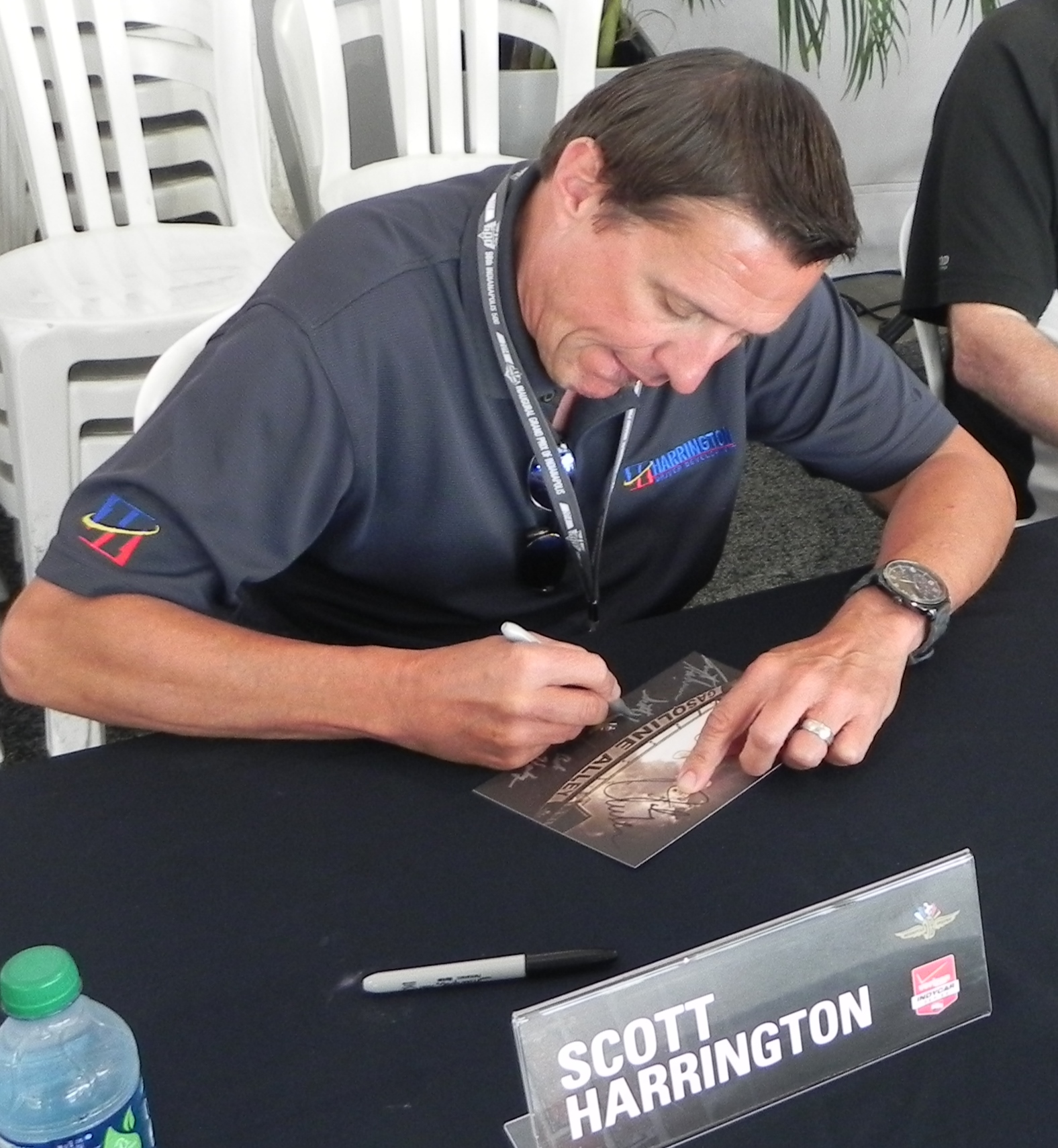 Indy500 driver Scott Harrington at the 2014 Indianapolis 500.